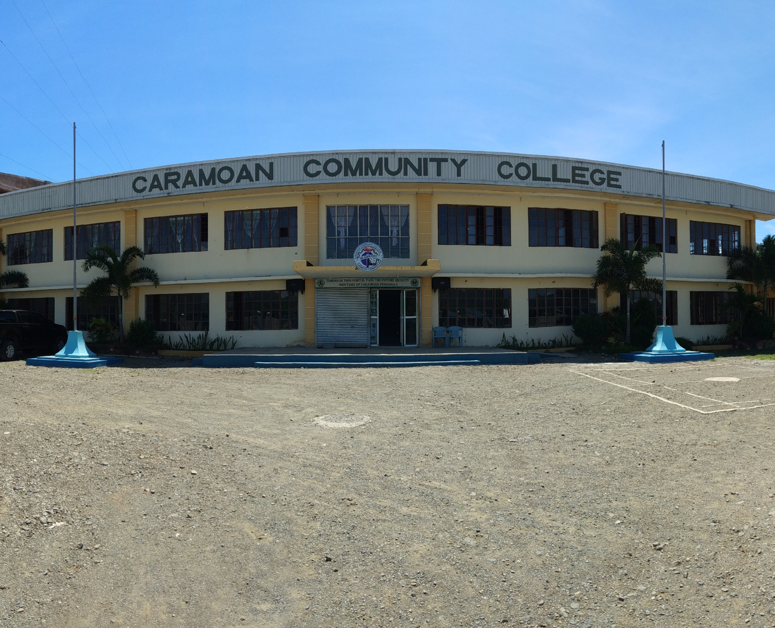 The main college edifice of the Caramoan Community College.